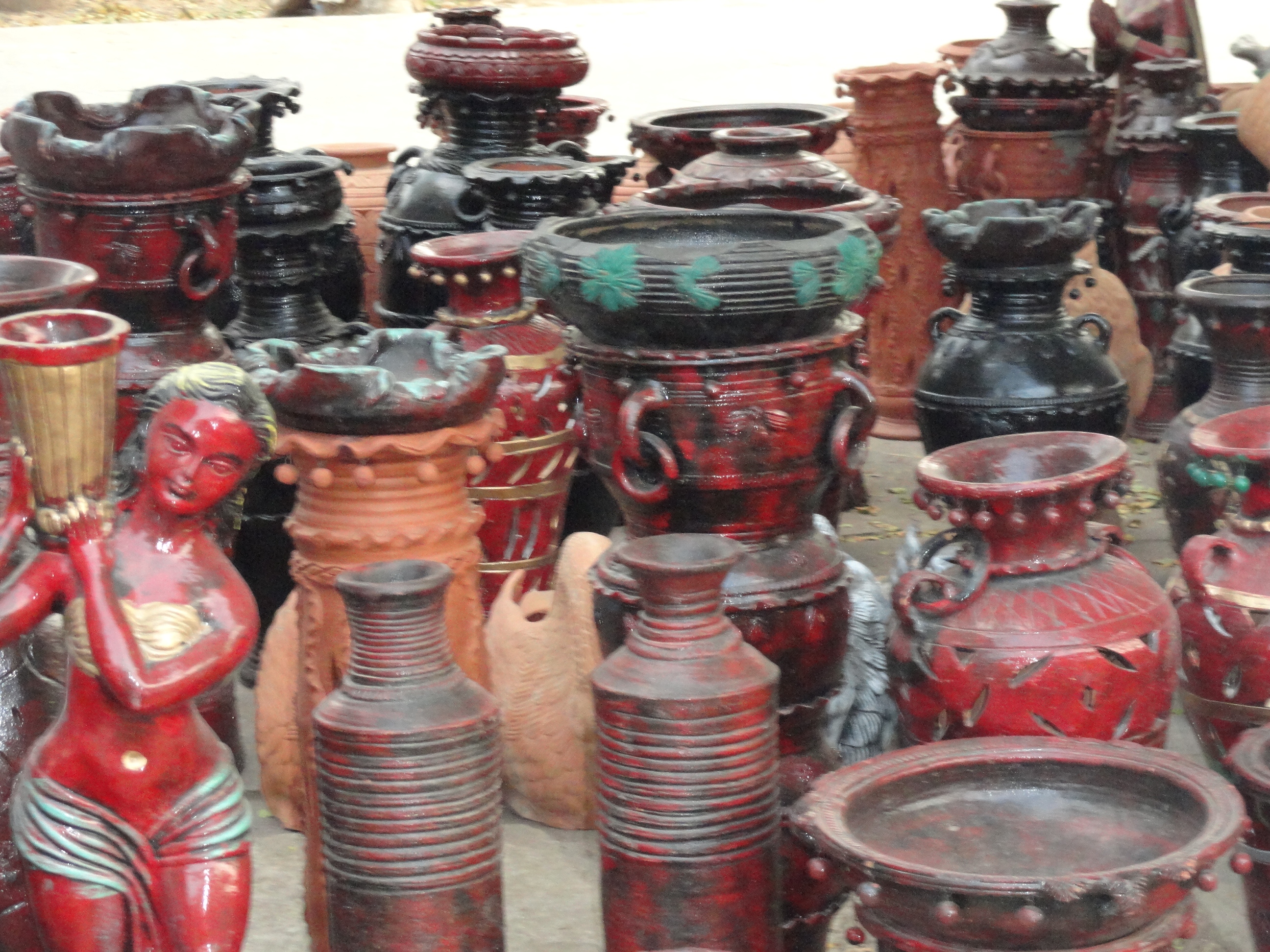 artistic earthern pots and other things for sale at road side near malakpet.